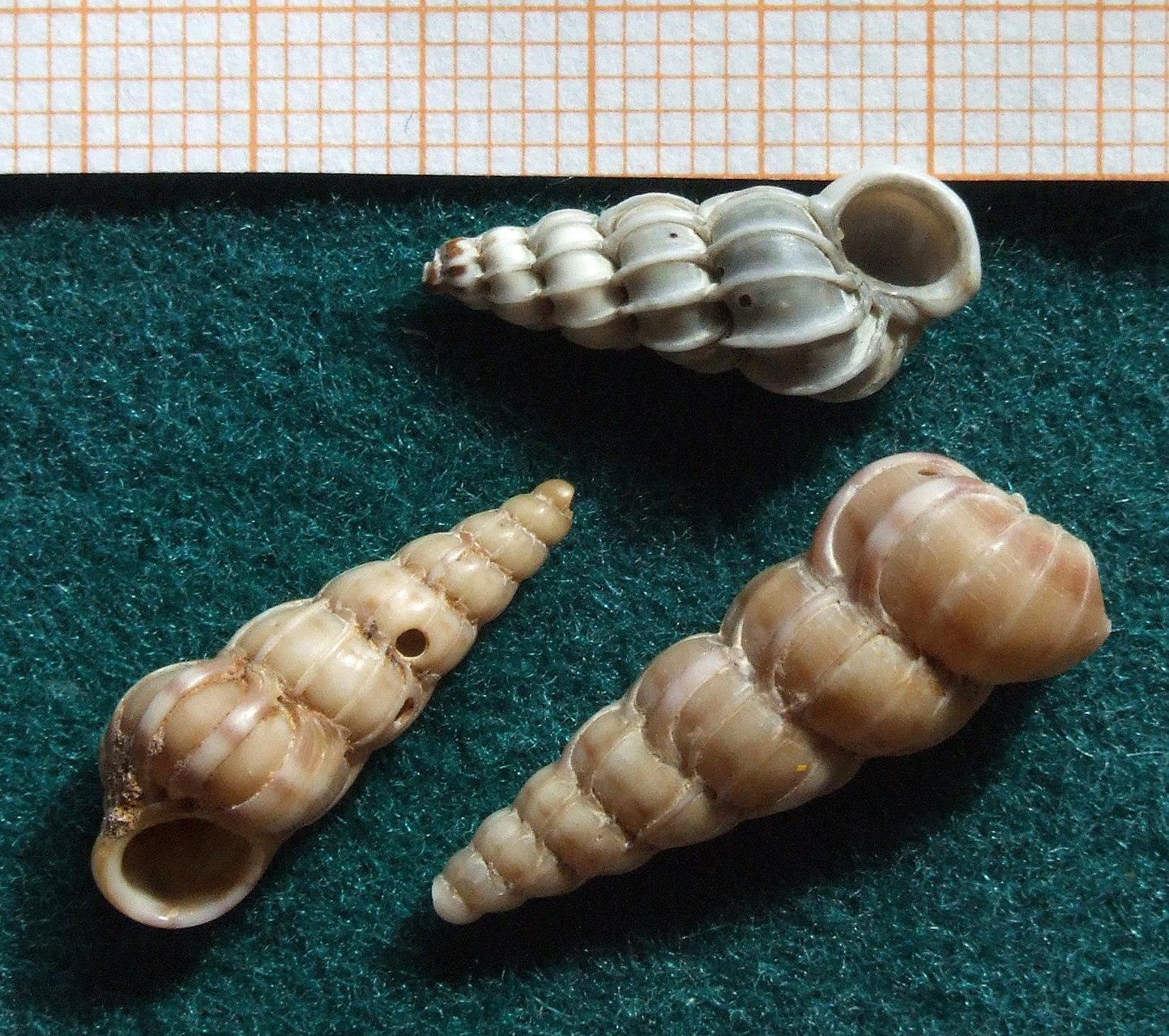 Shells of the Common Wentletrap, Epitonium clathrus (Linnaeus, 1758), found on the beach of Sylt, Germany